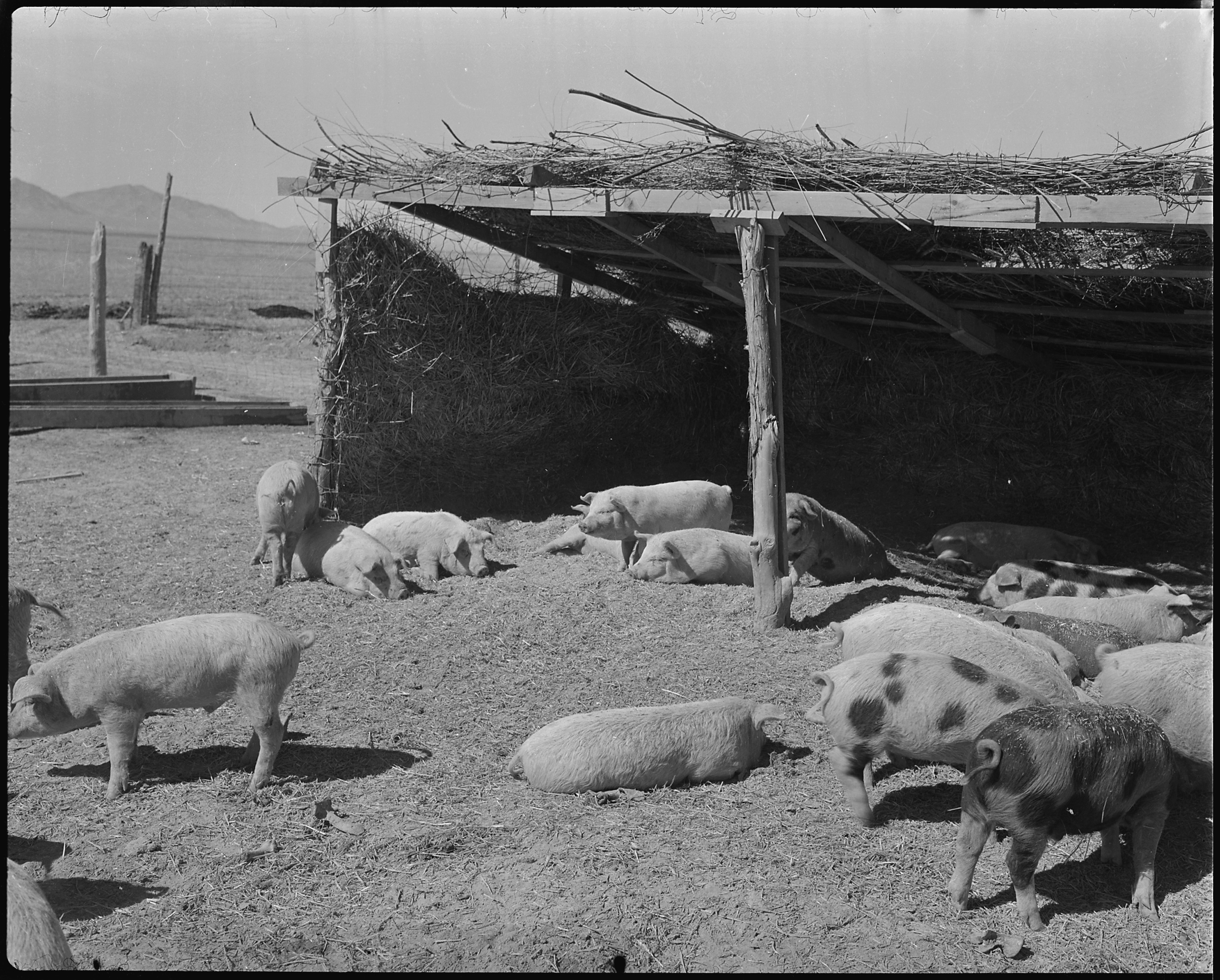 Scope and content: The full caption for this photograph reads: Topaz, Utah. A view of the hog farm, where evacuee workers raise all the pork which is used by the residents of this War Relocation Authority center. Due to special treatment and care, the death rate among the hogs is far less than the national average.